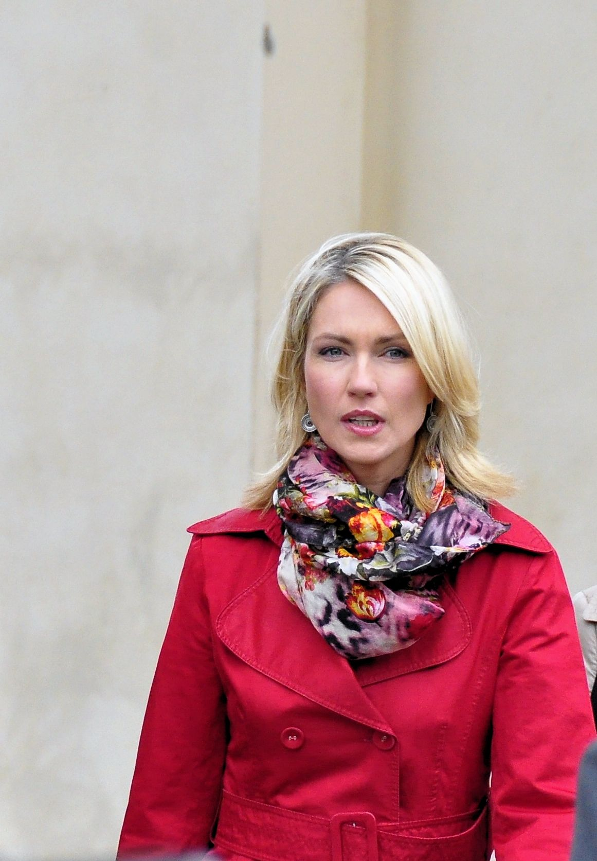 German Federal Government Minister Manuela Schwesig (SPD) attending a rally against anti-Semitism, Berlin, 14 September 2014